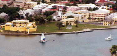 Aeril view of Christiansted National Historic Site — in Christiansted, United States Virgin Islands. Danish colonial architecture in the United States. Credits From National Park Service: Christiansted National Historic Site